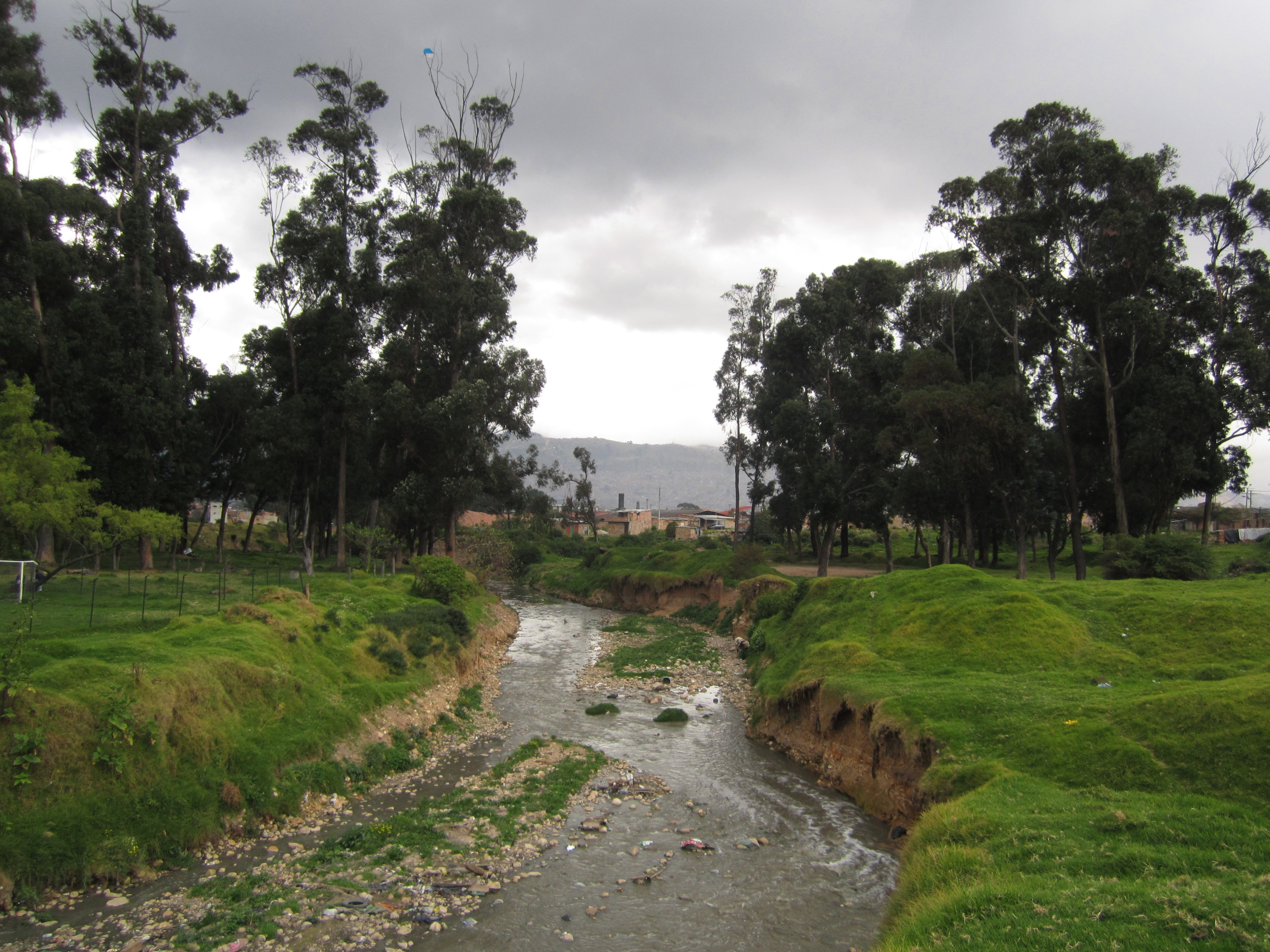 Quebrada La Chiguaza a su paso por la Hacienda Bosque de Los Molinos, en la, carrera 5 #48p Sur-48, barrio San Agustín, localidad de Rafael Uribe Uribe, cerros del sur de Bogotá.